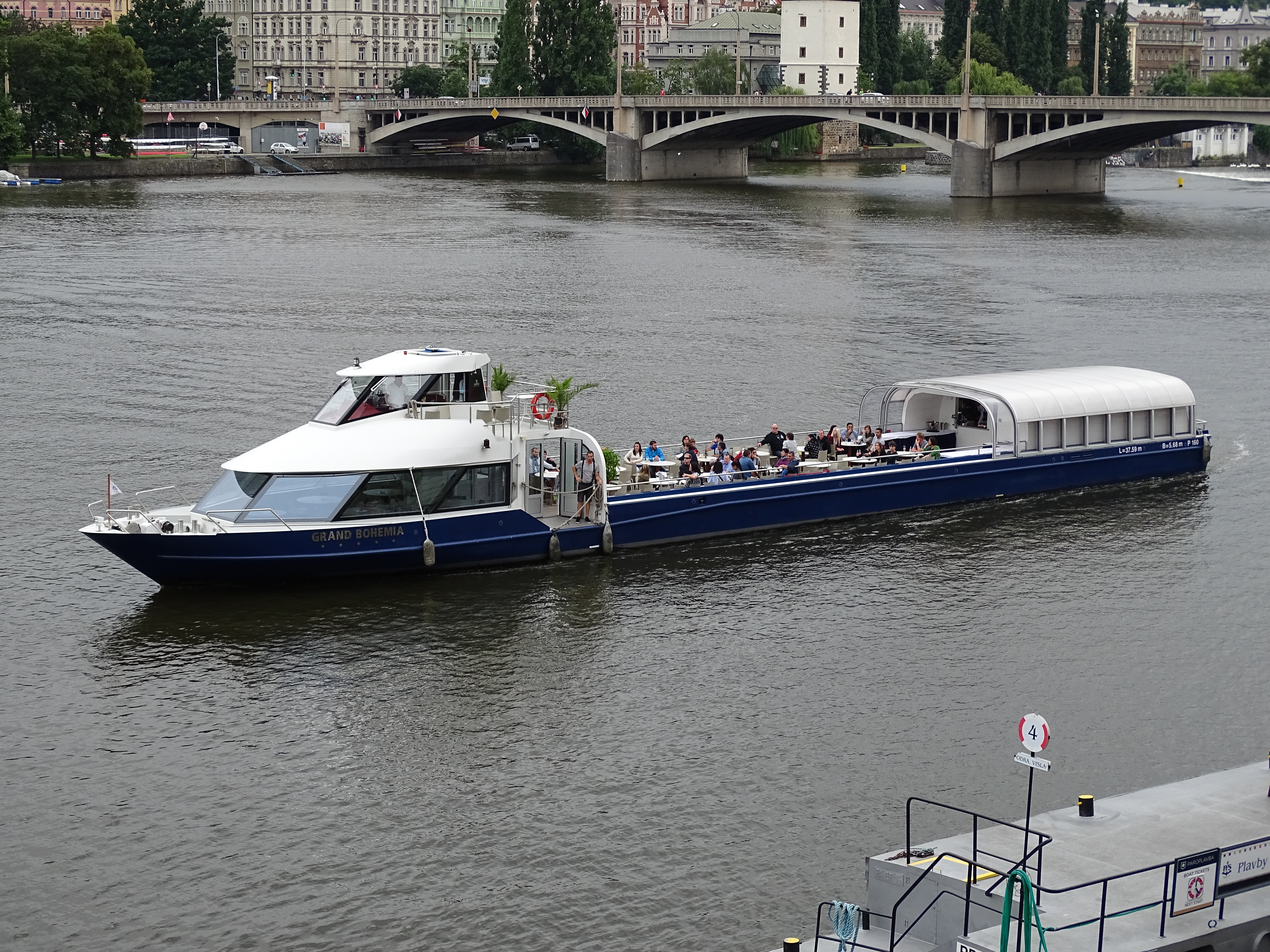 Prague-New Town, Czech Republic. Hořejší nábřeží, ship Grand Bohemia.